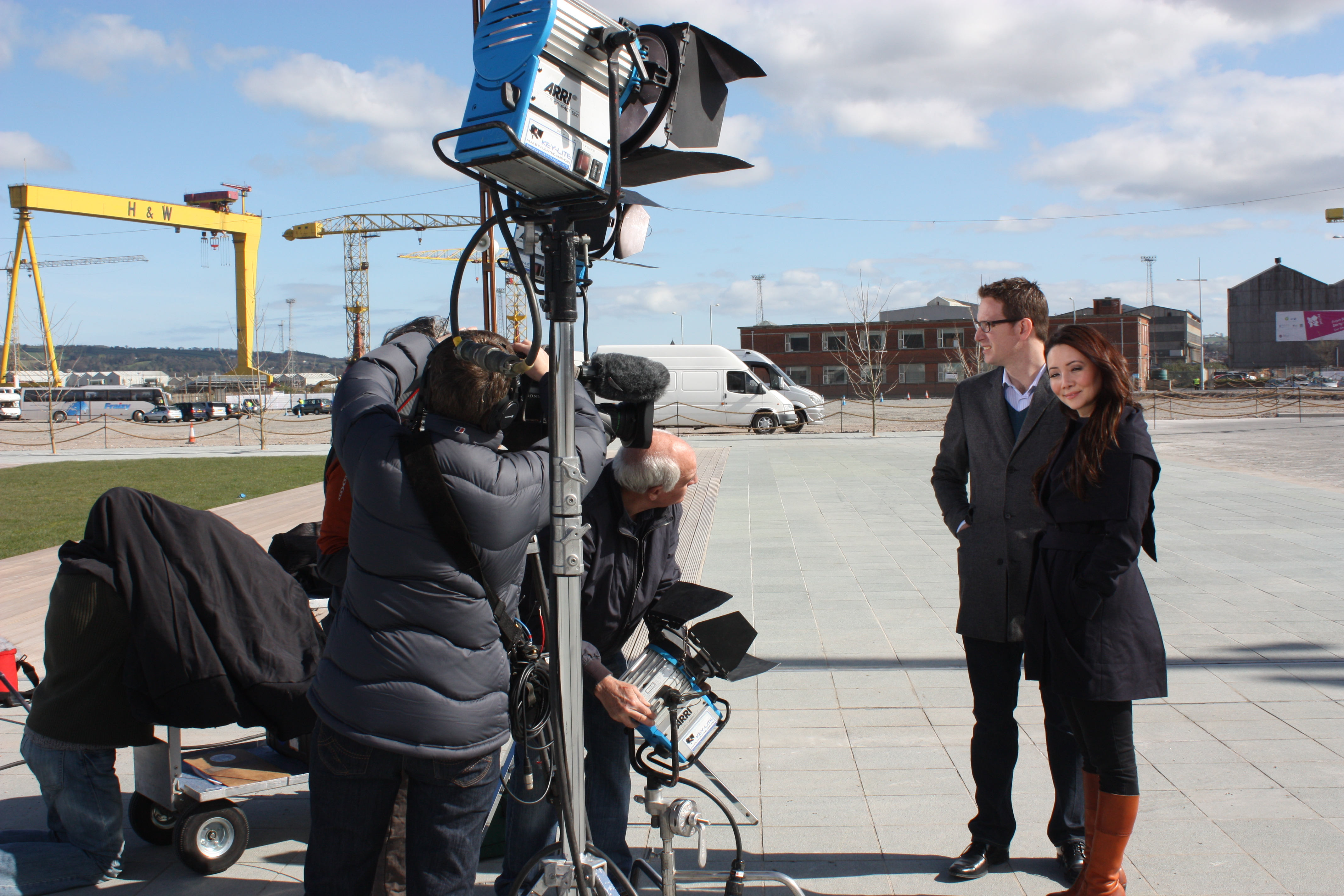 Media on Olympic Slipway, Opening Day at Titanic Belfast, Titanic Quarter, Queen's Road, Belfast, Northern Ireland, 31 March 2012